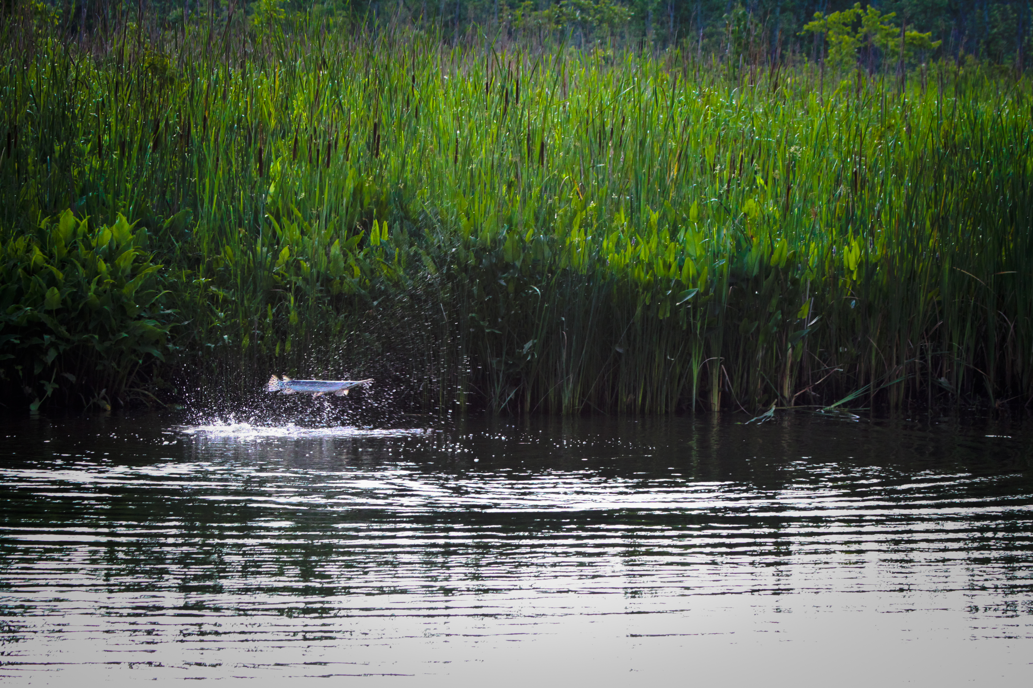 Gar jumping out of the water